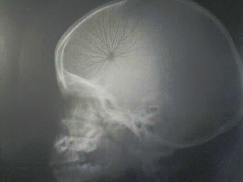 Effect of a static electricity spark on a radiographyc film.